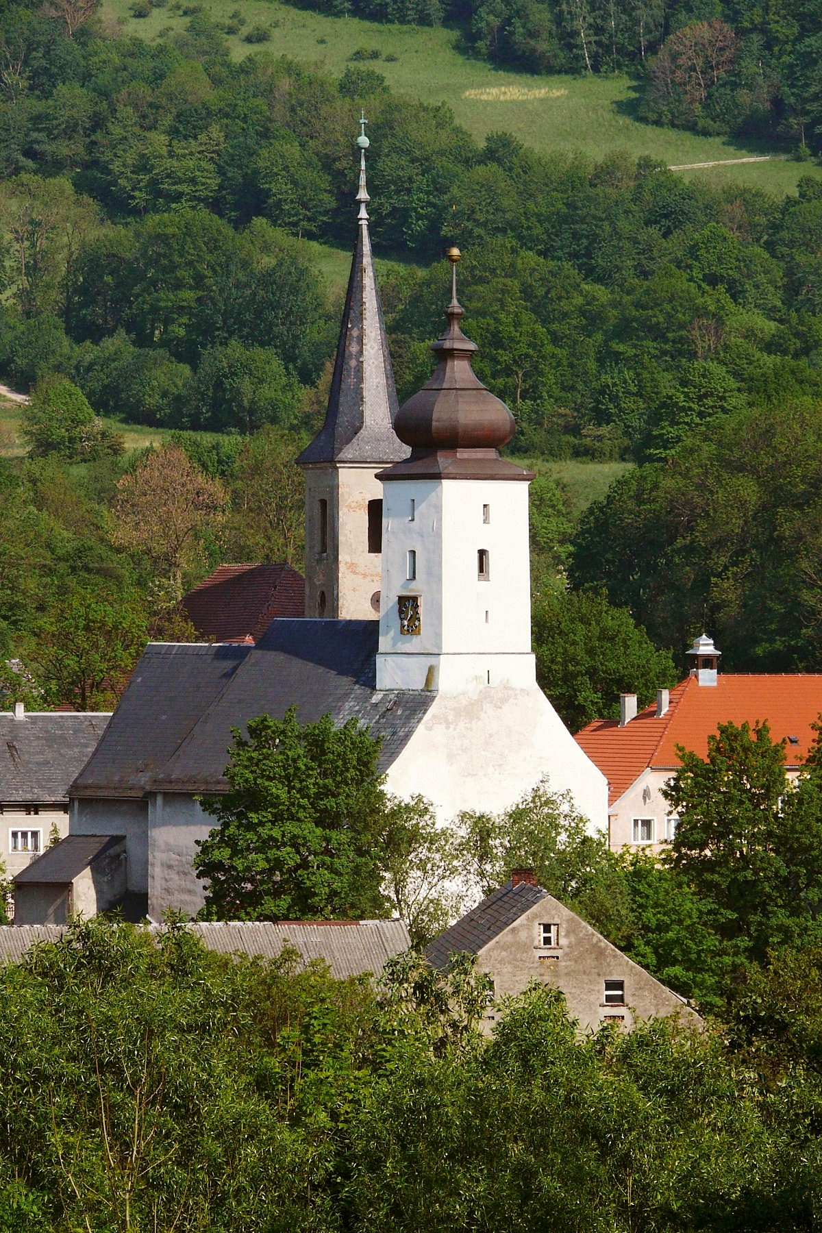 Churches in Wojcieszów